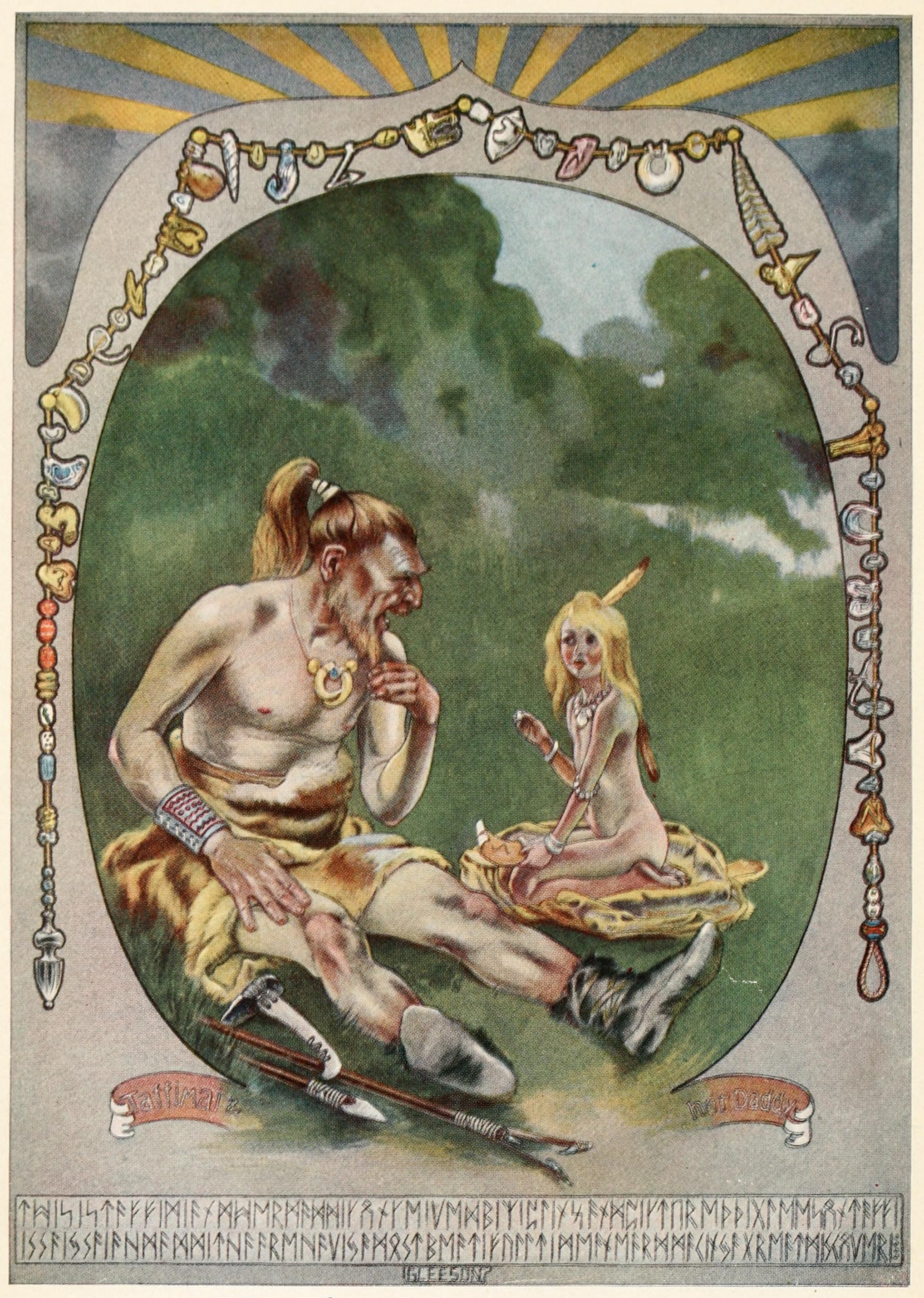 Illustration from a collection of short stories Just so stories (c1912) Garden City, N.Y. : Doubleday & Co., Inc.